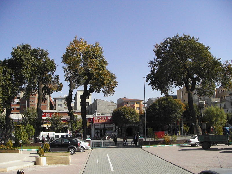 A view of Igdir city centre